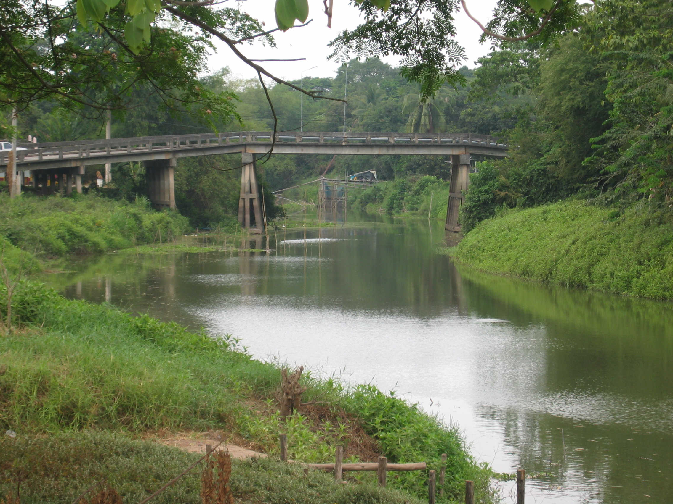 River passing through Nakhon Nayok